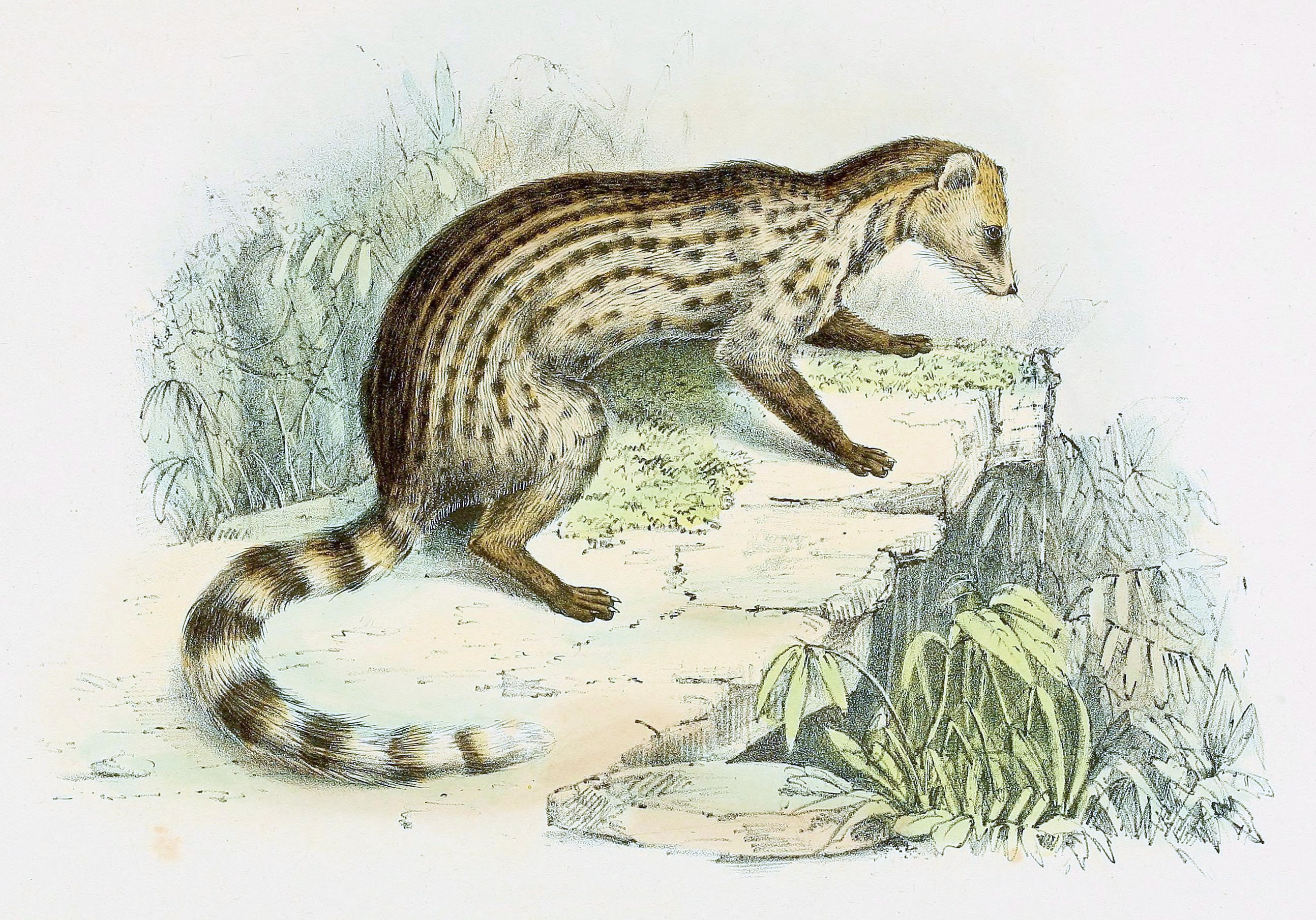 Viverra schlegelii = Viverricula indica schlegelii (Subspecies of Small Indian Civet)